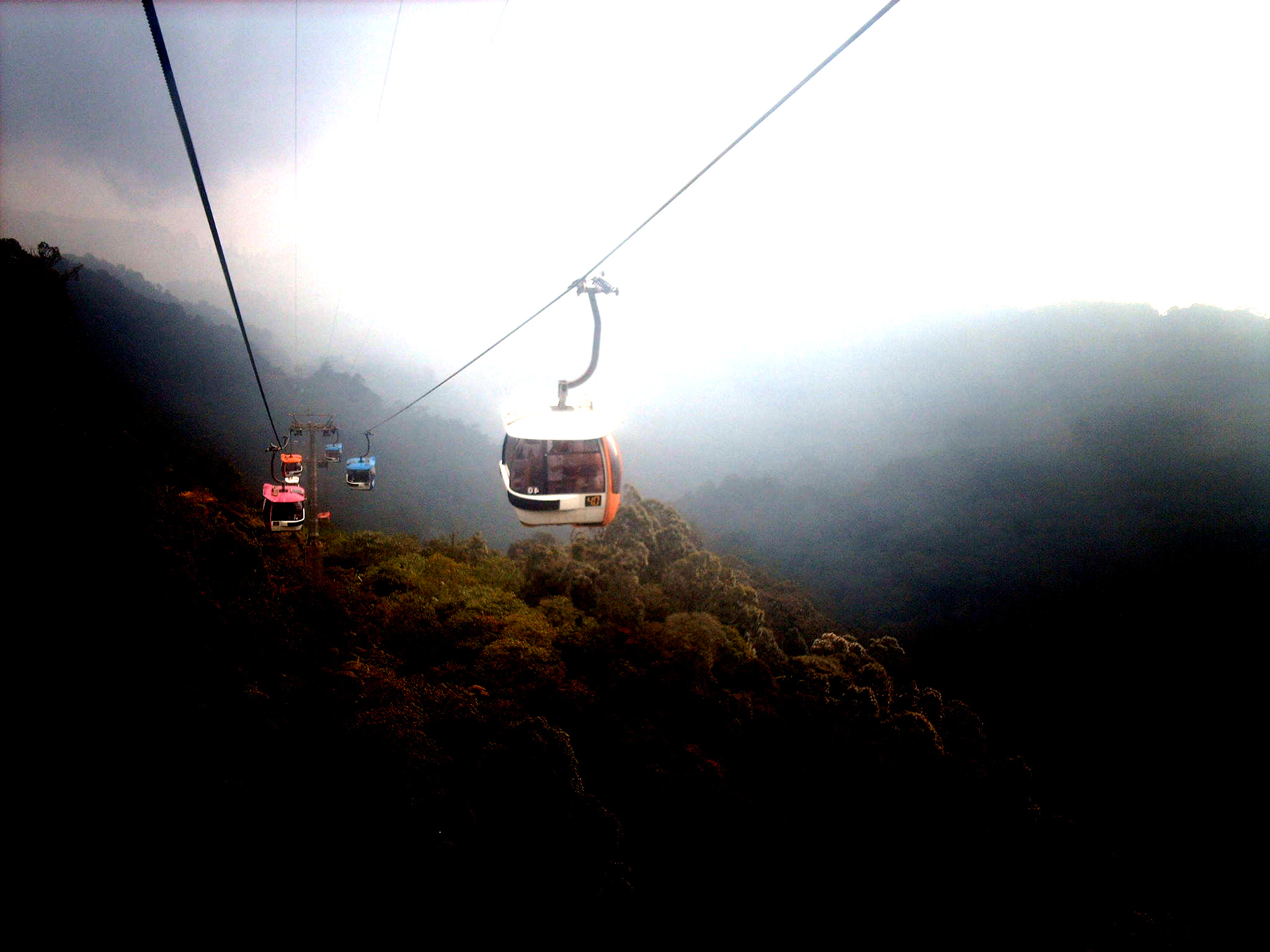 Genting Skyway in Genting Highland, Malaysia